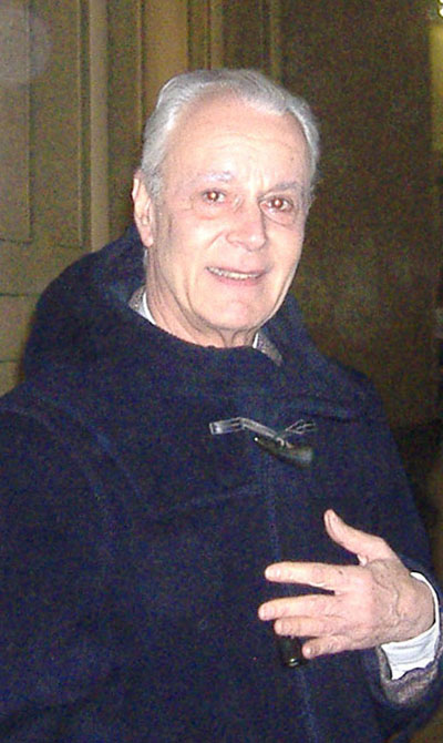 Paolo Poli Italian Actor